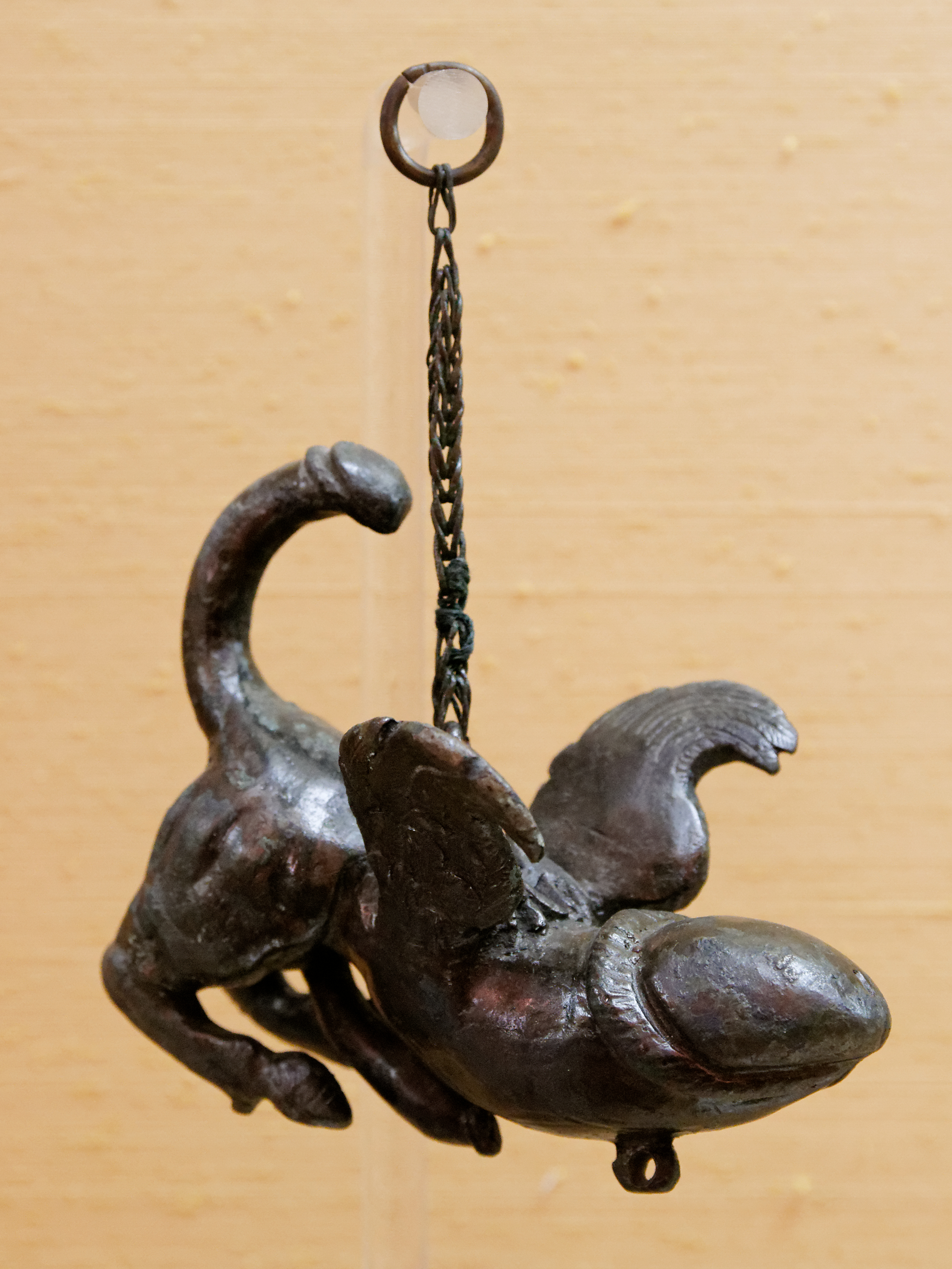 Roman bronze amulet: Tintinnabulum quadruped-shaped bird with tail scorpionic phallic and two insects on the back (cicadas?), Found in Pompeii, now on display in the Secret Cabinet of the National Archaeological Museum of Naples (inv. 27839).